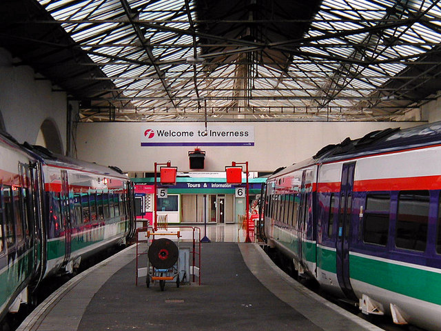 Welcome to Inverness